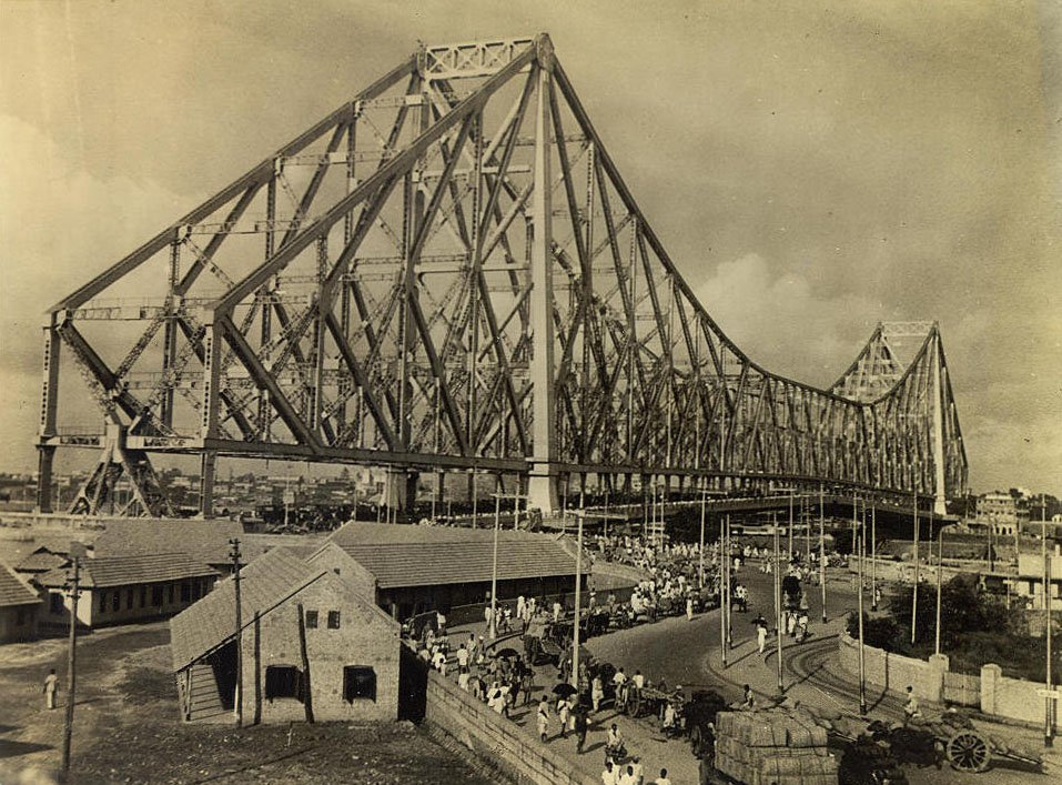 A picture of the Howrah Bridge at Kolkata, India